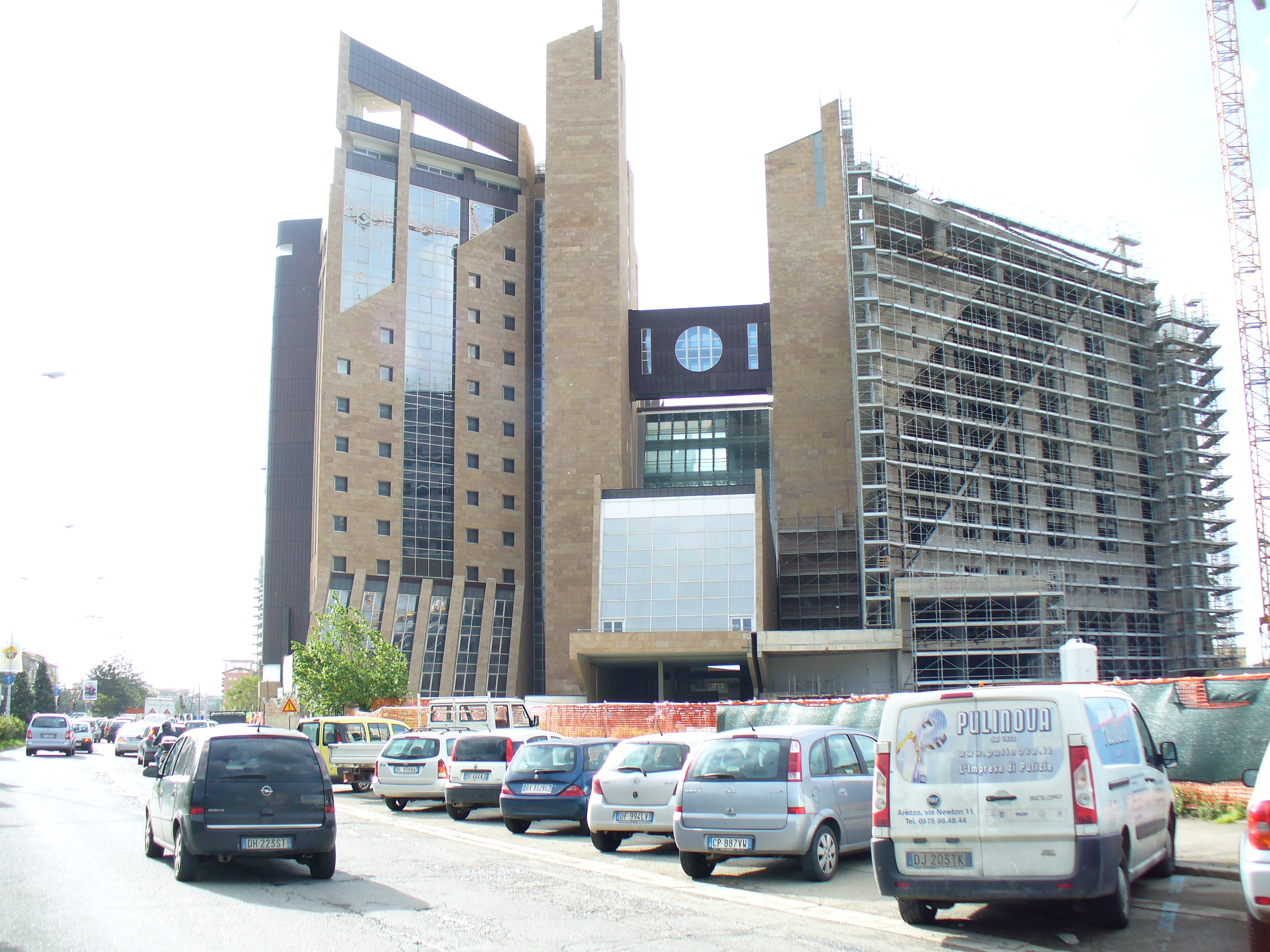 Palazzo di Giustizia (Florence)